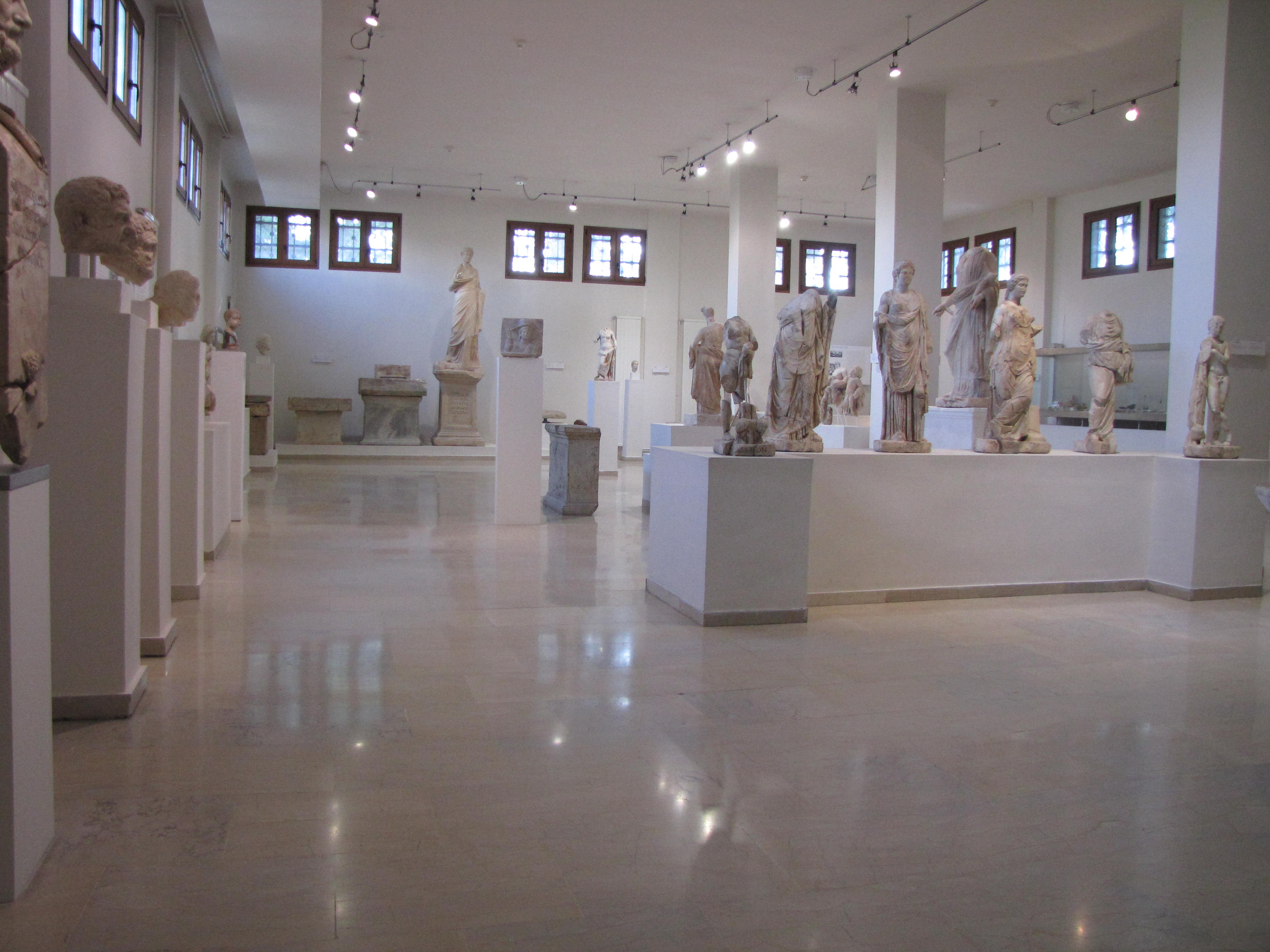 Dion Museum